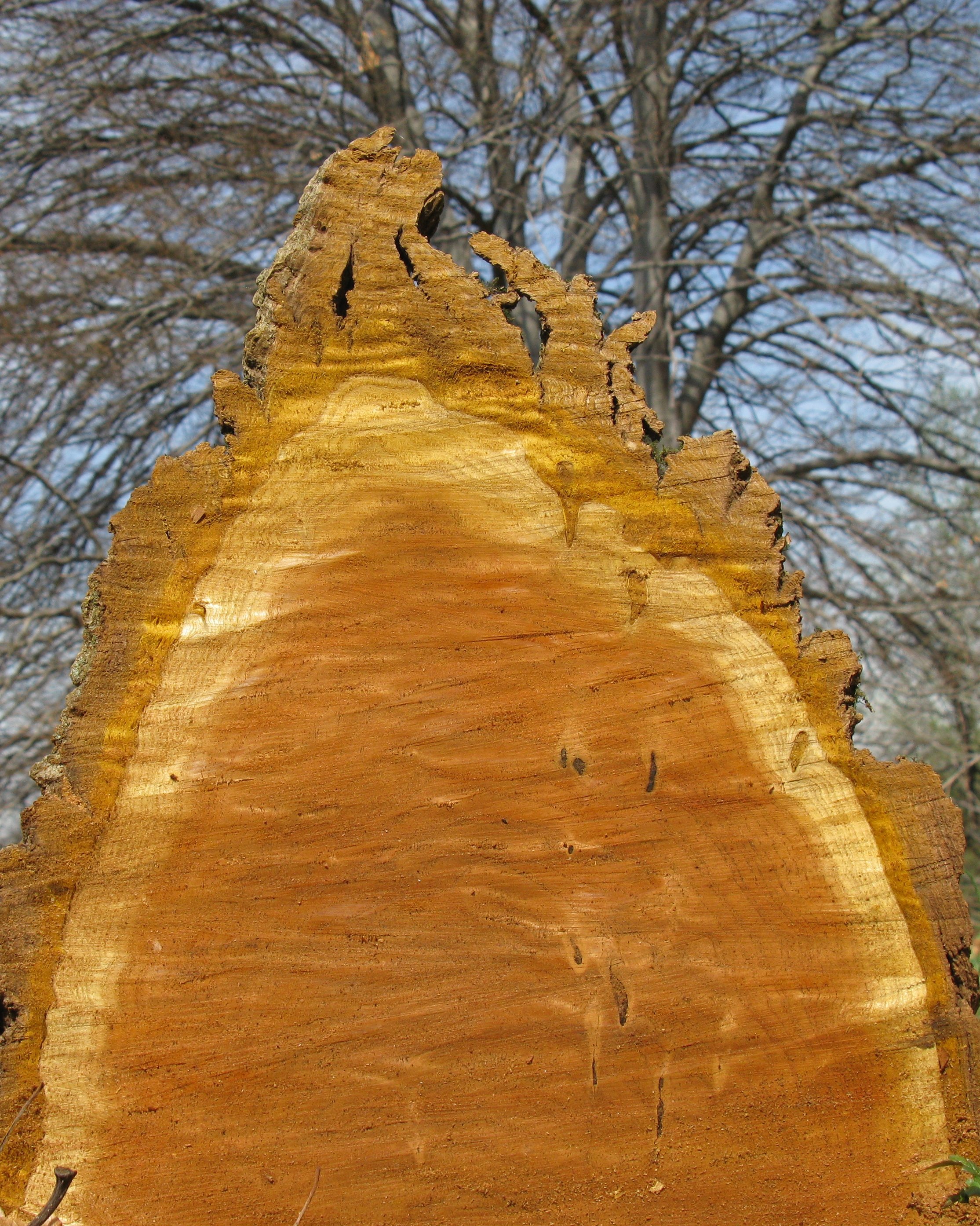 A cut from an Amur Corktree that made me think of celestial flames.